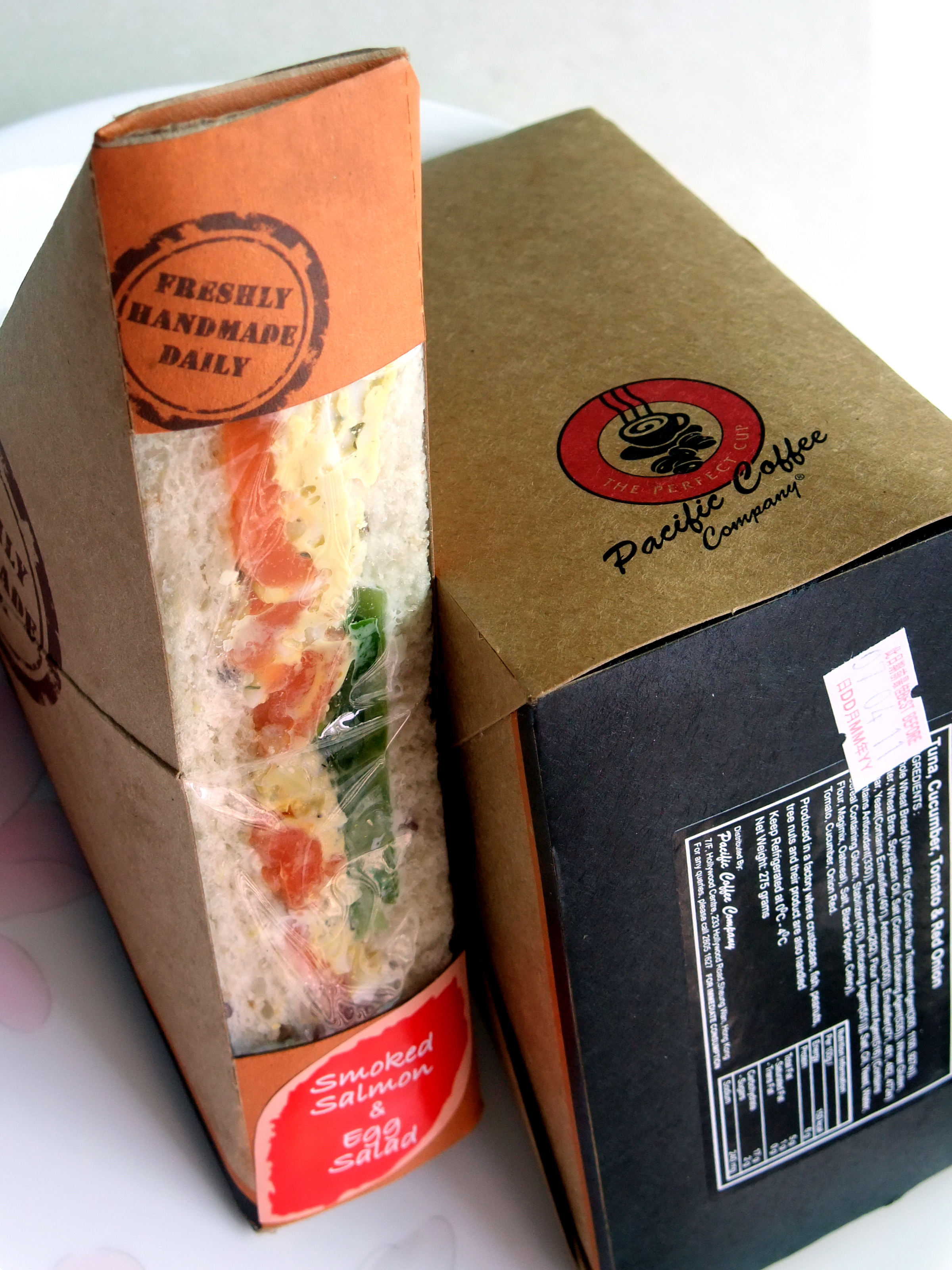 Pacific Coffee Company sandwiches. (Smoked salmon & egg salad and tuna,cucumber, tomato & red onions)